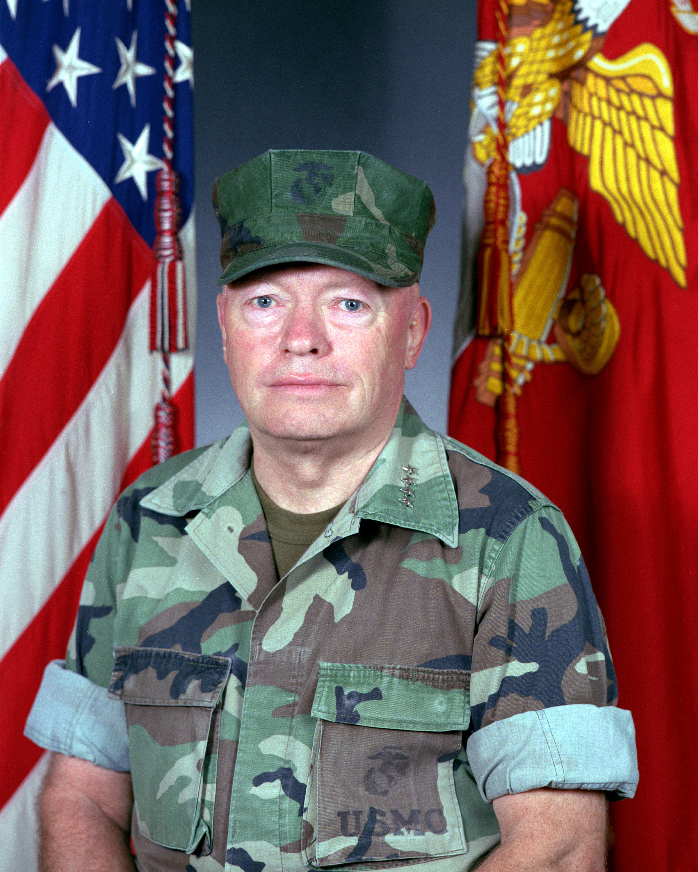 Alfred Gray, former Commandant of the Marine Corps.